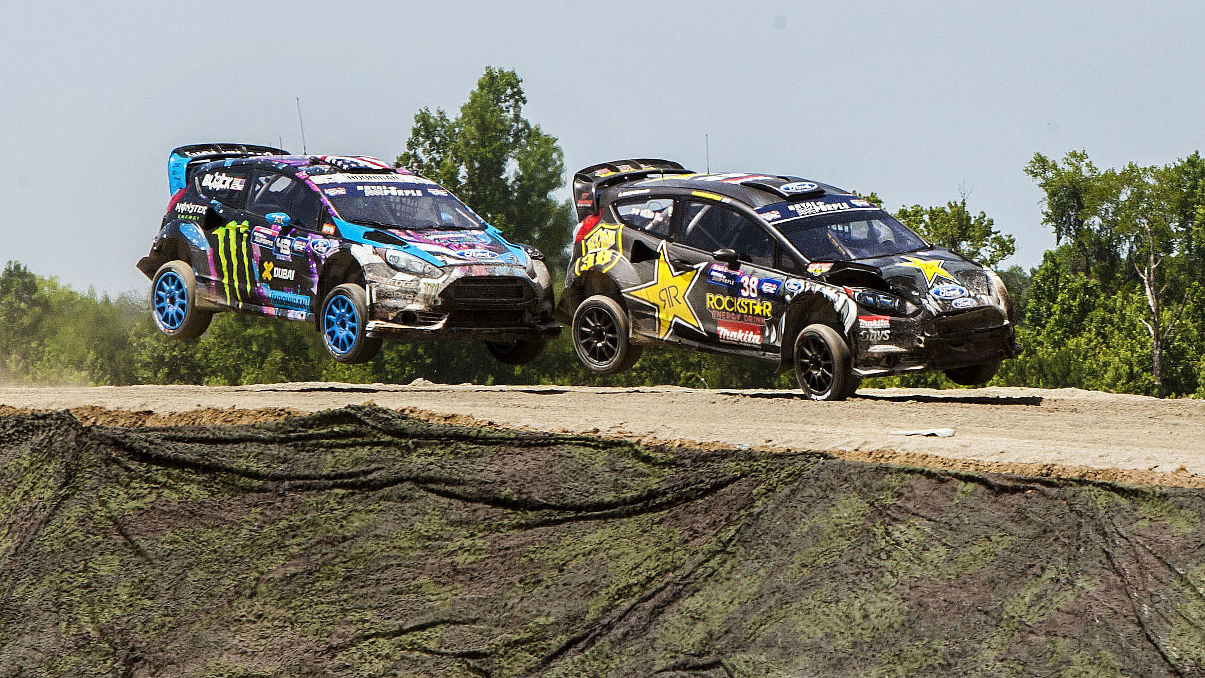 Ken Block, left, with Hoonigan Racing and Brian Deegan, right, with Ganassi Racing Ford race during a Red Bull Global Rallycross (GRC) event on Marine Corps Air Station New River, N.C., July 5, 2015. Competing on a .993-mile track, the longest in series history, the Red Bull GRC event was the first motorsports race to take place on an active military base. (U.S. Marine Corps photo by Sgt. Christopher Q. Stone, MCIEAST-MCB CAMLEJ Combat Camera/Released)